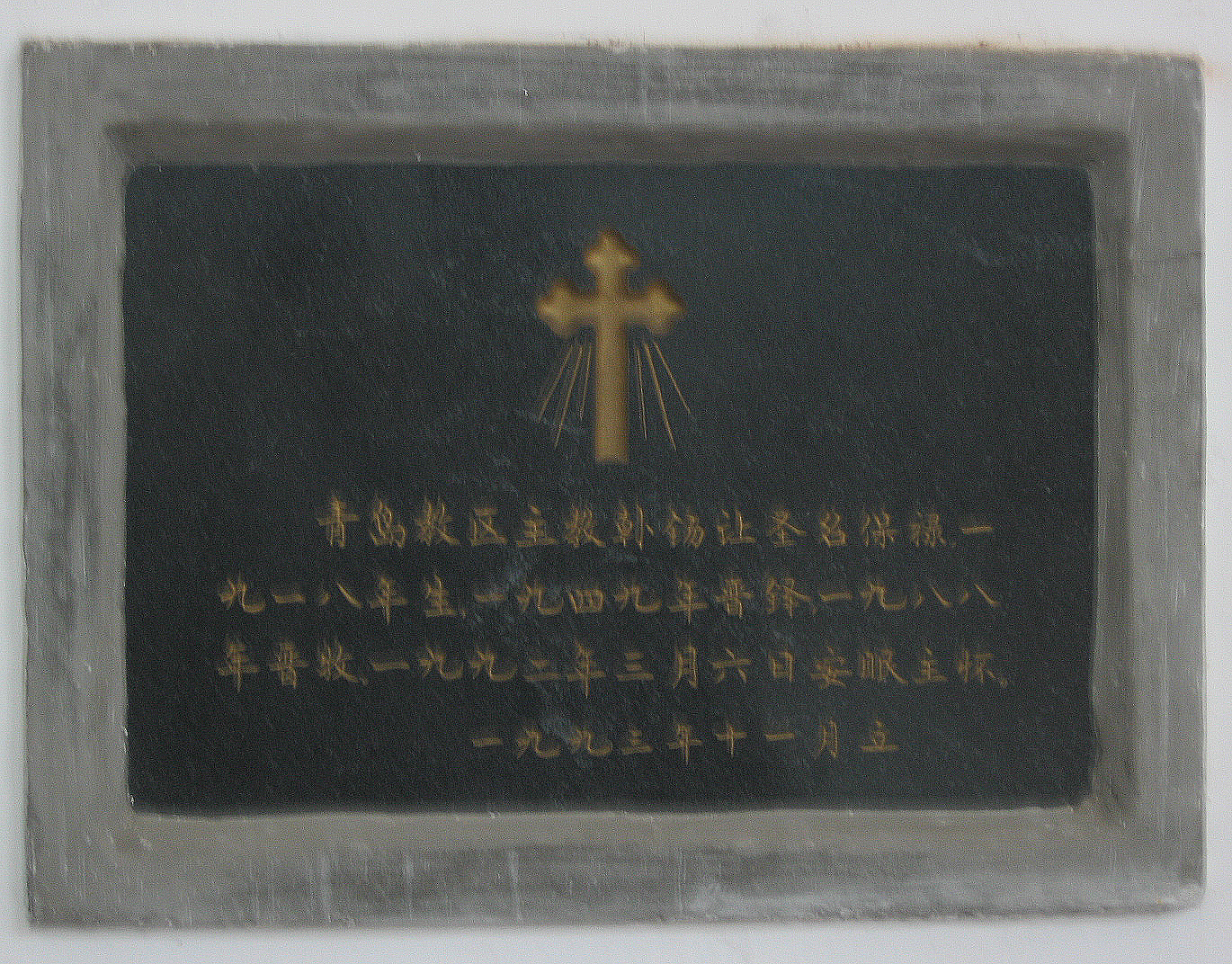 Tombstone of Paul Han Xirang, Bishop of Qingdao. Marker (and tomb) located in north transept of St. Michael's Cathedral, Qingdao, People's Republic of China. Translation of grave marker reads: Diocese of Qingdao Bishop Han Xirang, Christian name "Paul" Born 1918. Ordained 1949. Consecrated as Bishop 1988. Sleeping peacefully in the bosom of the Lord March 6, 1992. Established November 1993.